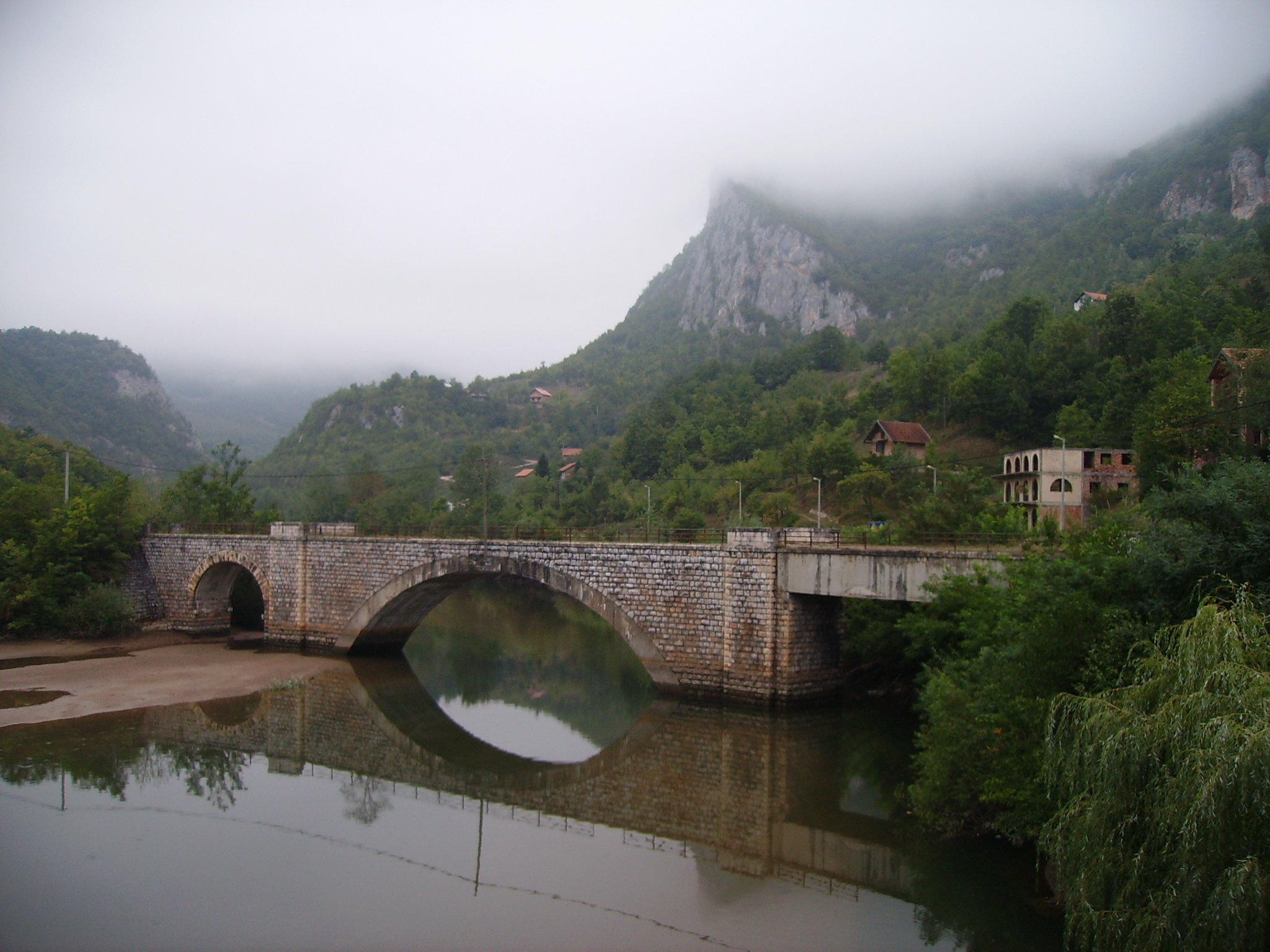 Bosnia, old railway bridge over River Prača in Ustiprača.